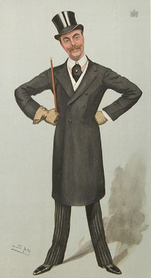 Caricature of Victor Spencer, 1st Viscount Churchill. Caption read "Conservative Whip".